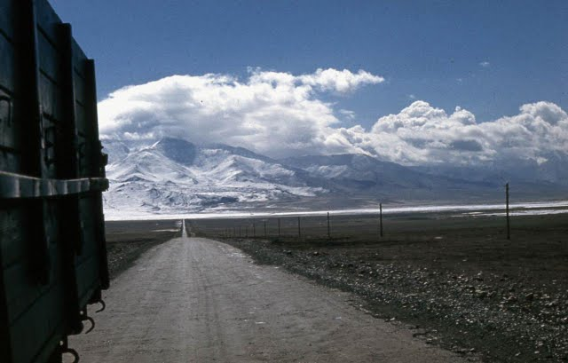 M41 Highway